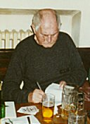 Bohumil Hrabal (1914-1997), Czech writer (Prague, September 1994)